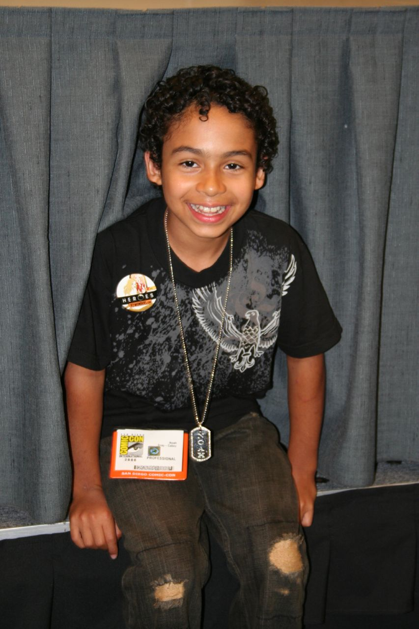 Noah Gray-Cabey, American child actor.